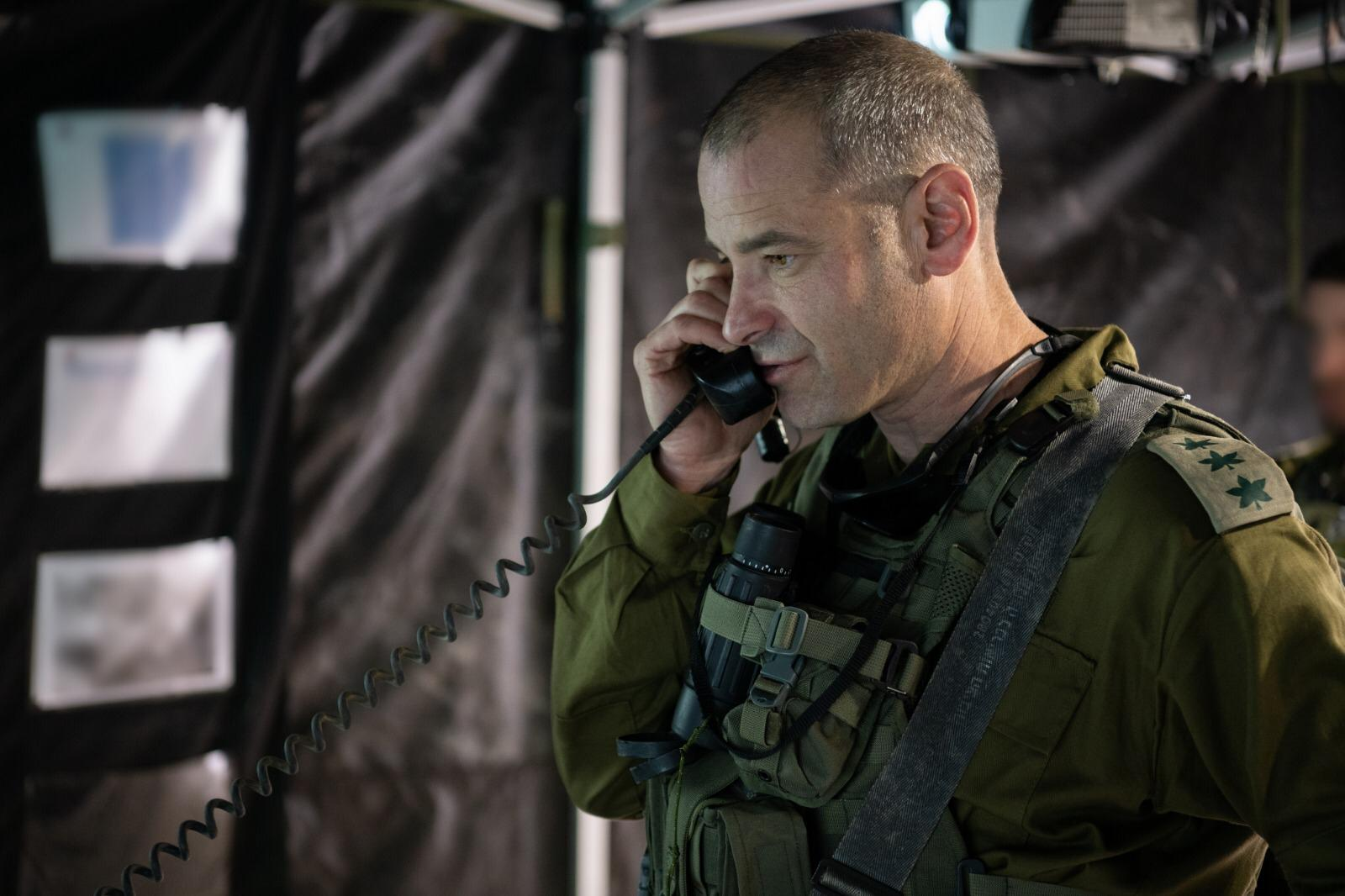 Commander of the IDF Commando Brigade Col. Kobi Heller speaks on the radio during an exercise in Cyprus simulating war in the north in December 2019.